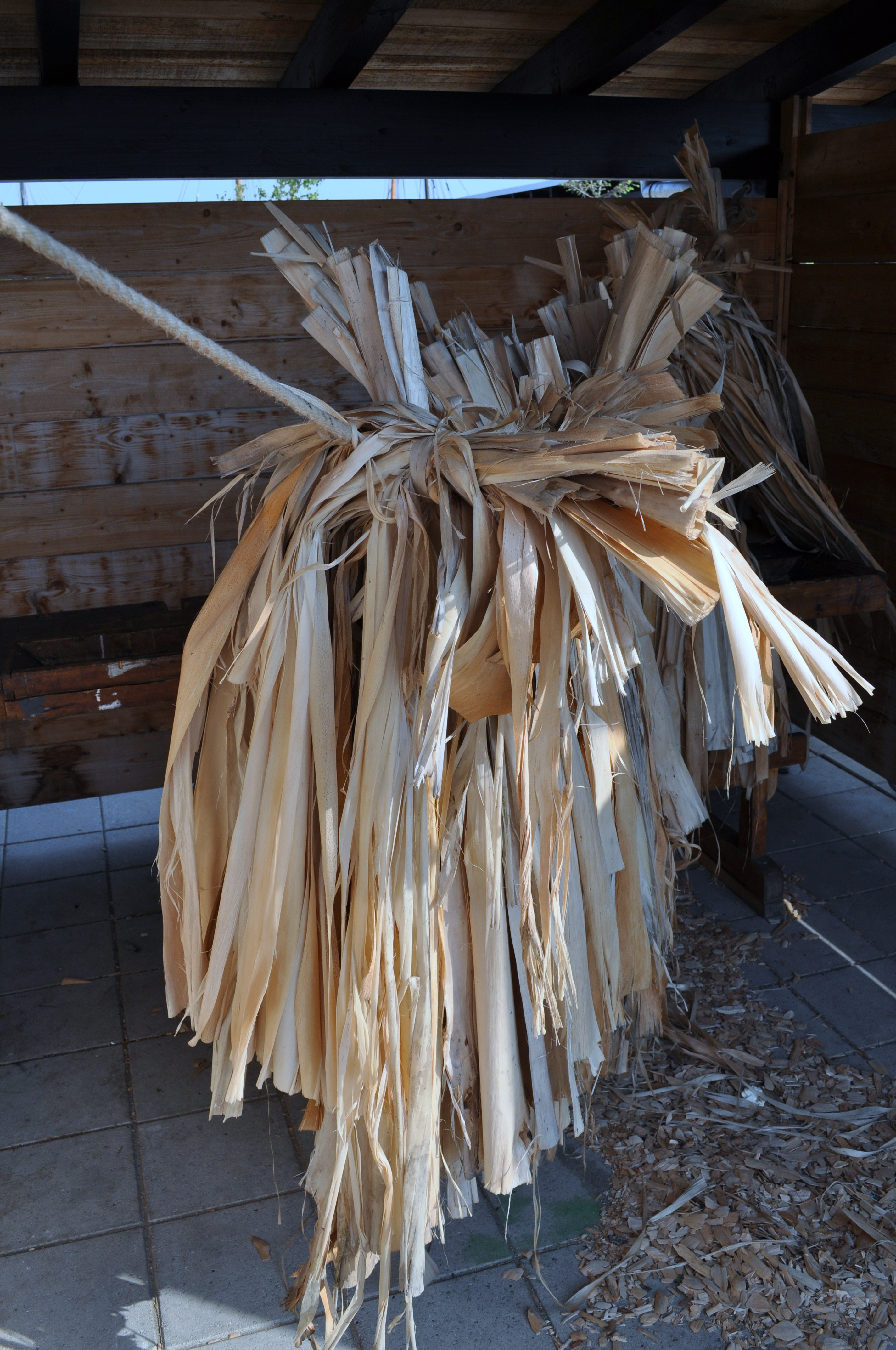 Bast-fibre